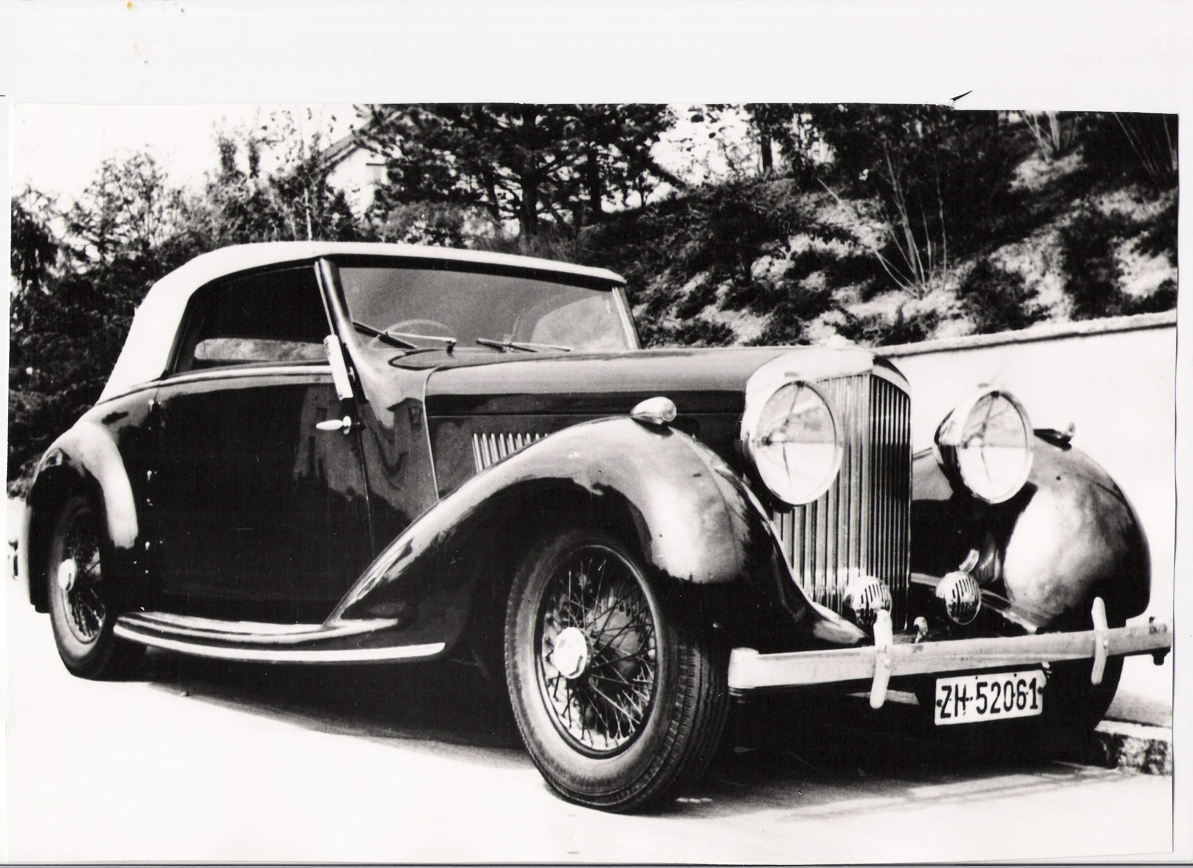 Bentley 1937 4 1/4 litre Carosserie Köng Basel